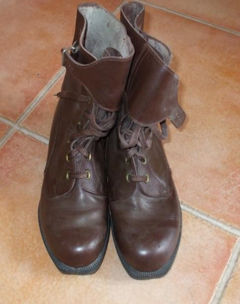 Hungarian military combat boot M65, better known as "surranó".